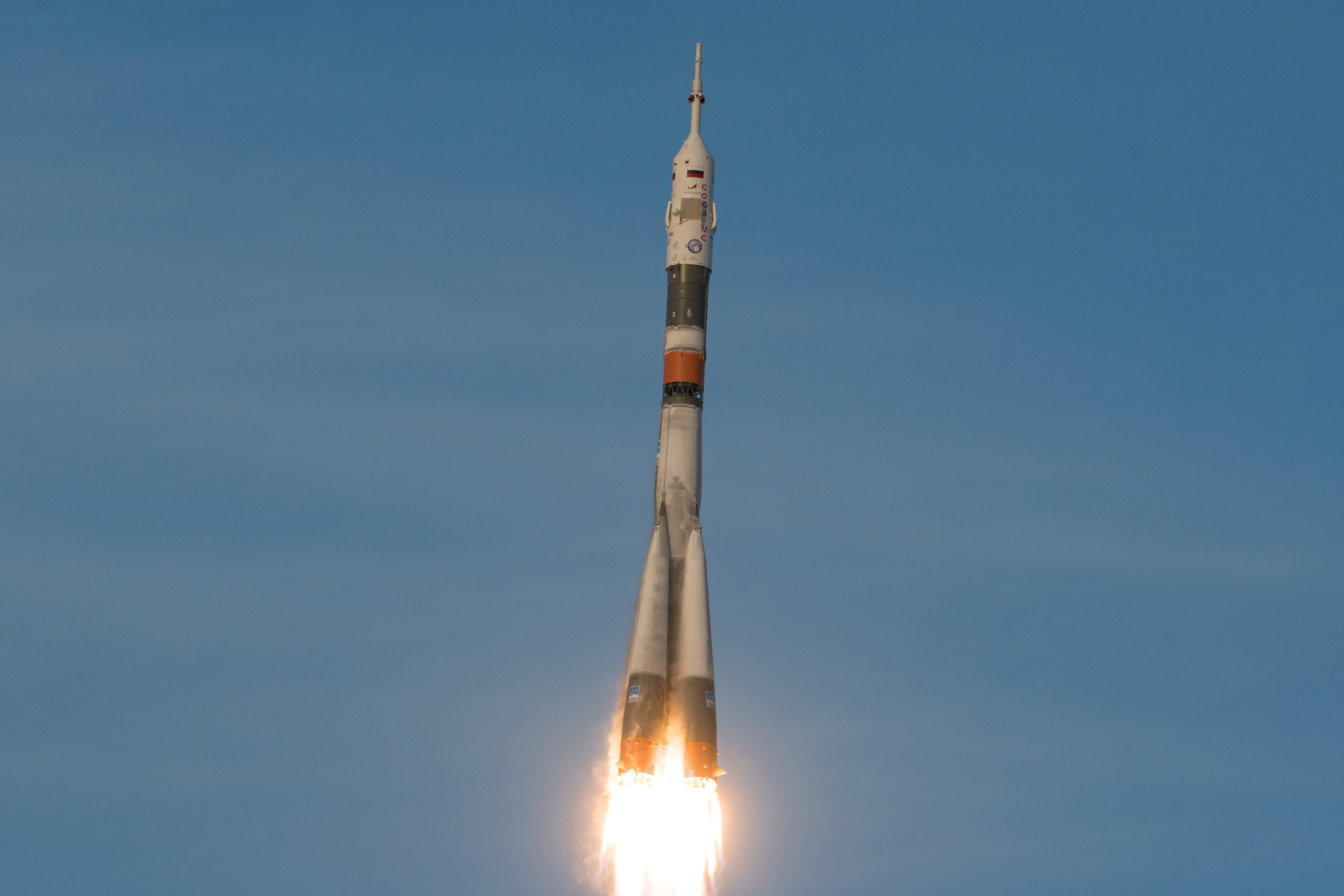 A Soyuz booster rocket launches the Soyuz MS-11 spacecraft from the Baikonur Cosmodrome in Kazakhstan on Monday, Dec. 3, 2018, Baikonur time, carrying Expedition 58 Soyuz Commander Oleg Kononenko of Roscosmos, Flight Engineer Anne McClain of NASA, and Flight Engineer David Saint-Jacques of the Canadian Space Agency (CSA) into orbit to begin their six and a half month mission on the International Space Station.